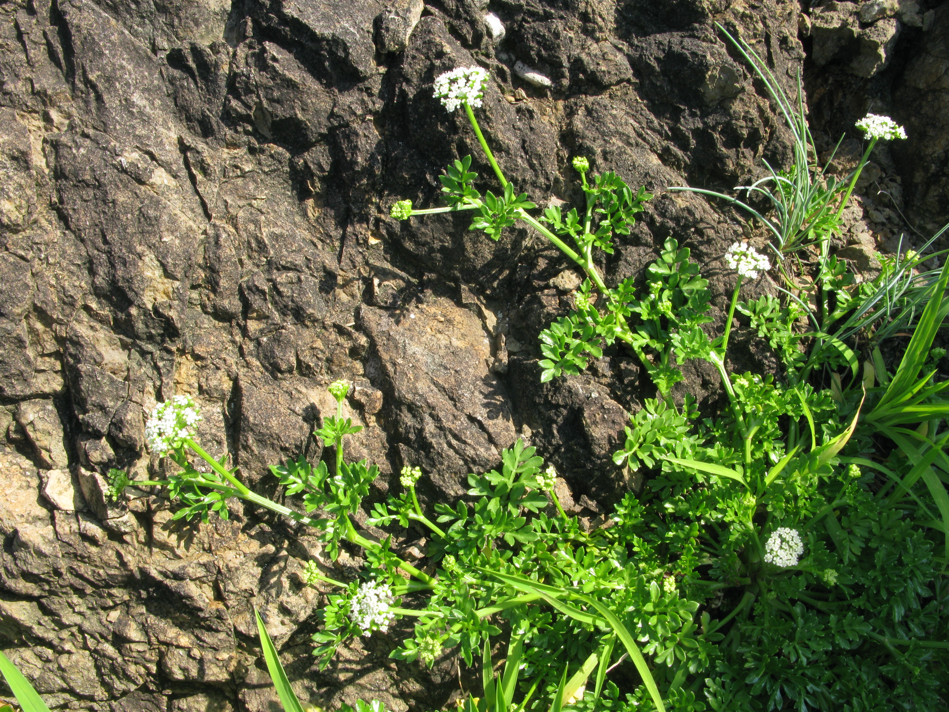 Cnidium japonicum, Shōnai area, Yamagata pref., Japan